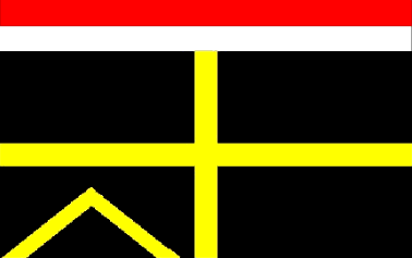 The Flag of Western Region (Ghana)